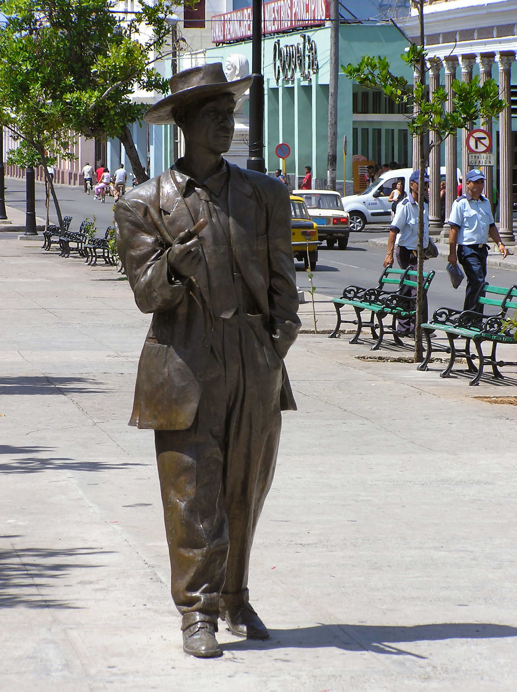 Statue of Benny Moré's effigy